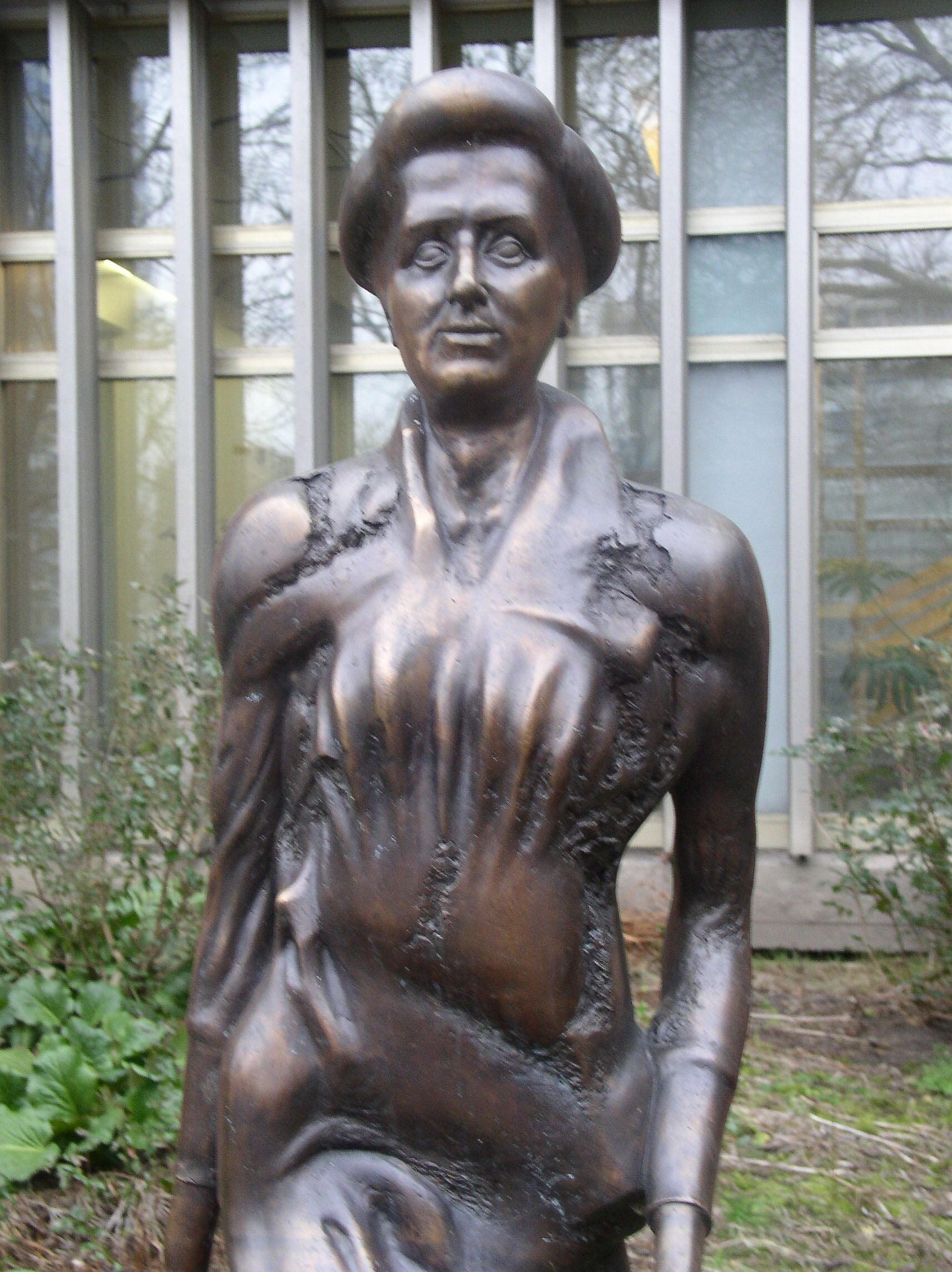 Sculpture of Rosa Luxemburg, made by Rolf Biebl, standing in front of the Neues Deutschland building, Franz-Mehring-Platz, Friedrichshain, Berlin.